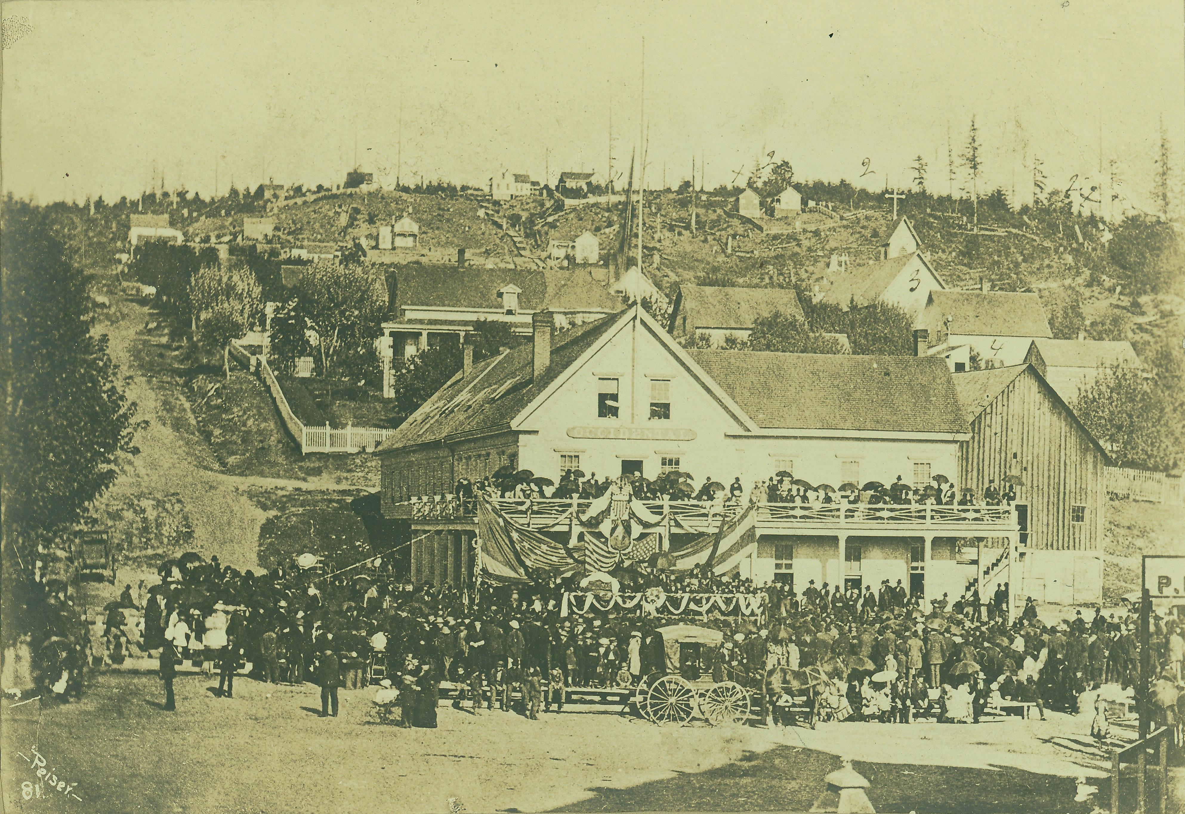 Located at James and Yesler . Peiser 81 Subjects (LCTGM): Memorial rites & ceremonies--Washington (State)--Seattle